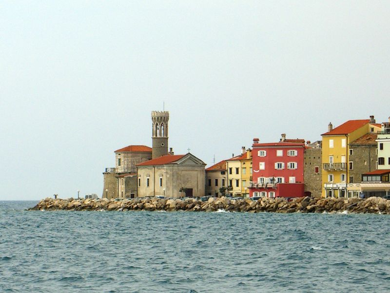 Template:Wts